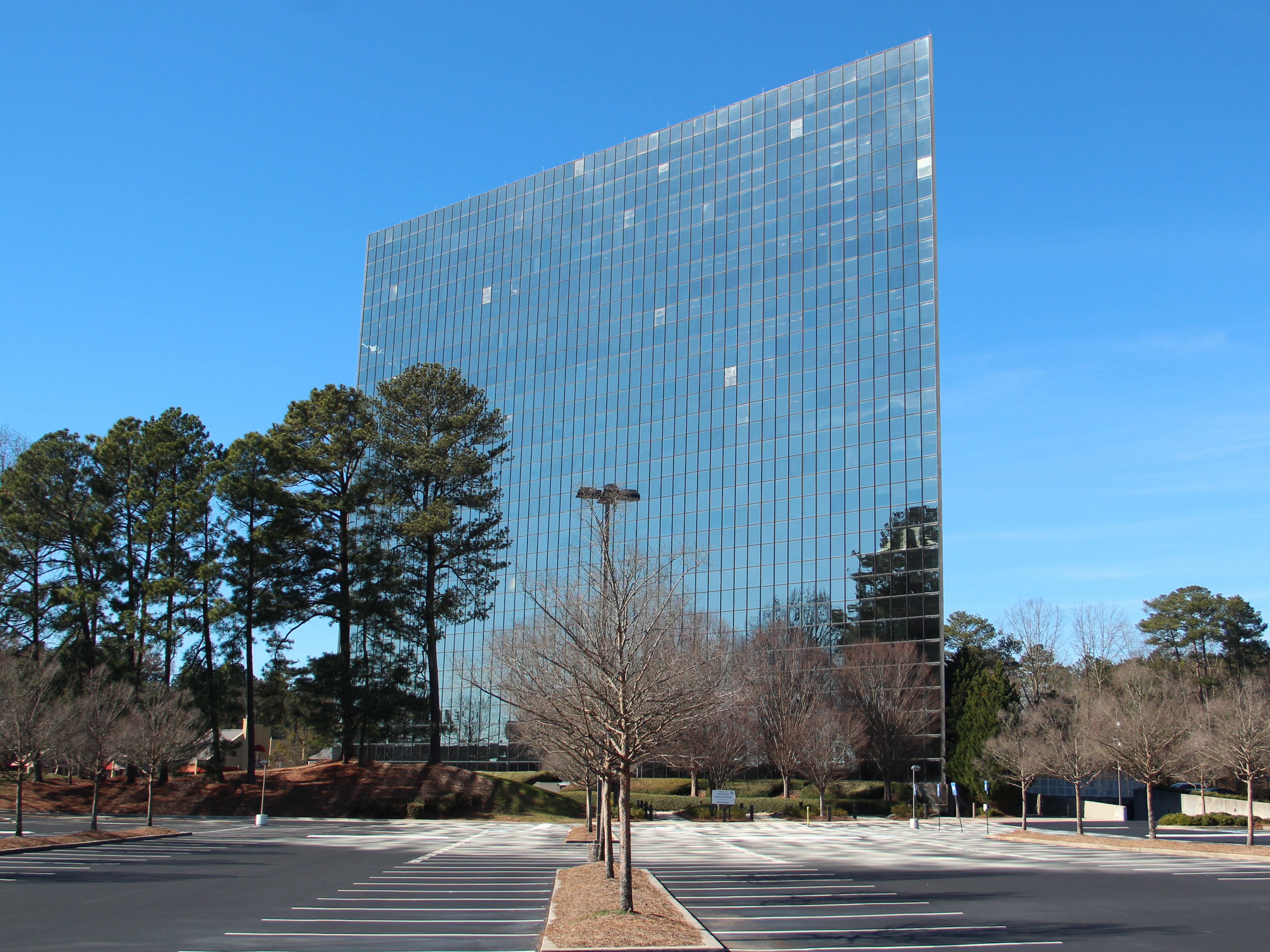 1800 Century Blvd NE, Chamblee GA